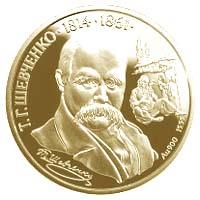 Coin of Ukraine